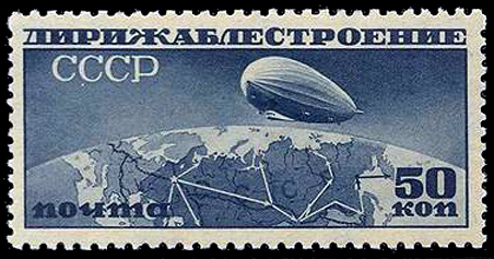 USSR stamp, Aspidka, 1931, 50 k.